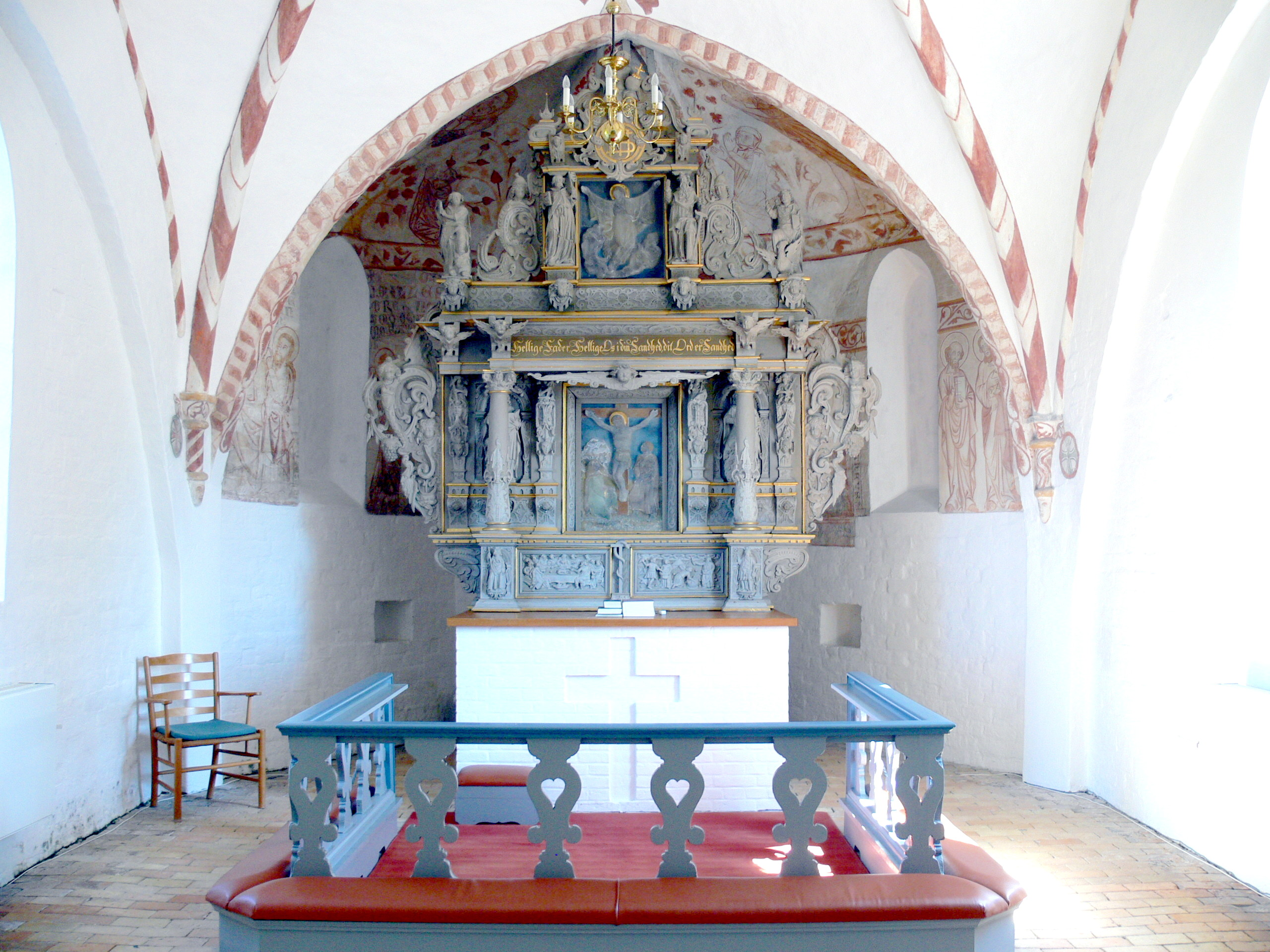 Nørre Alslev Kirke (church) in Denmark. Altar by Jørgen Ringnis from 1653.